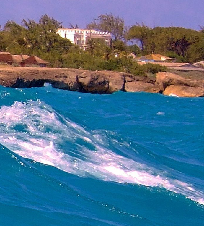 Sam Lords Castle seen by a diver above Cobblers Reef.